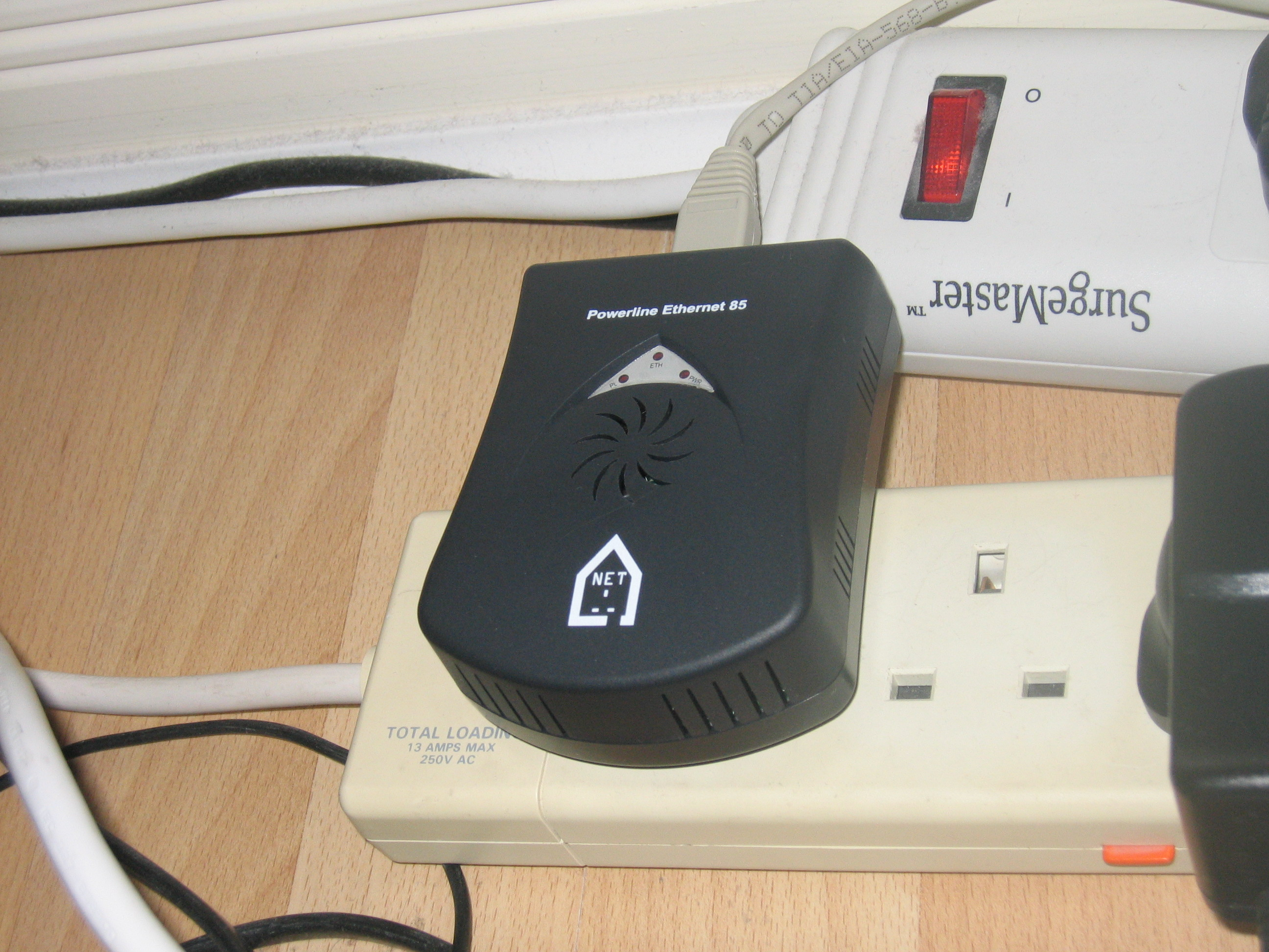 There's always been a problem in our house where sharing the Internet around it is concerned: the room where most of the network devices (PCs, printer, server, etc.) are located, doesn't have a phone socket for ADSL. Up until now, we've used a wireless Ethernet bridge to link the "computer room" to the router, but I've never really been happy with that solution as the bridge would sometimes just drop the connection for no apparent reason. HomePlug (sending the network traffic over the power lines in the house) has looked like an interesting alternative for some time, but only recently has it come down enough in price for me to consider it. I received a pair of HomePlug 85Mbps adapters (Maplin ones) for my birthday recently, and have now installed them - one in the computer room, the other next to the router. They worked perfectly first time once I'd set the network passwords, and now I think we'll only be using the WiFi for the laptop and my Nokia N95!